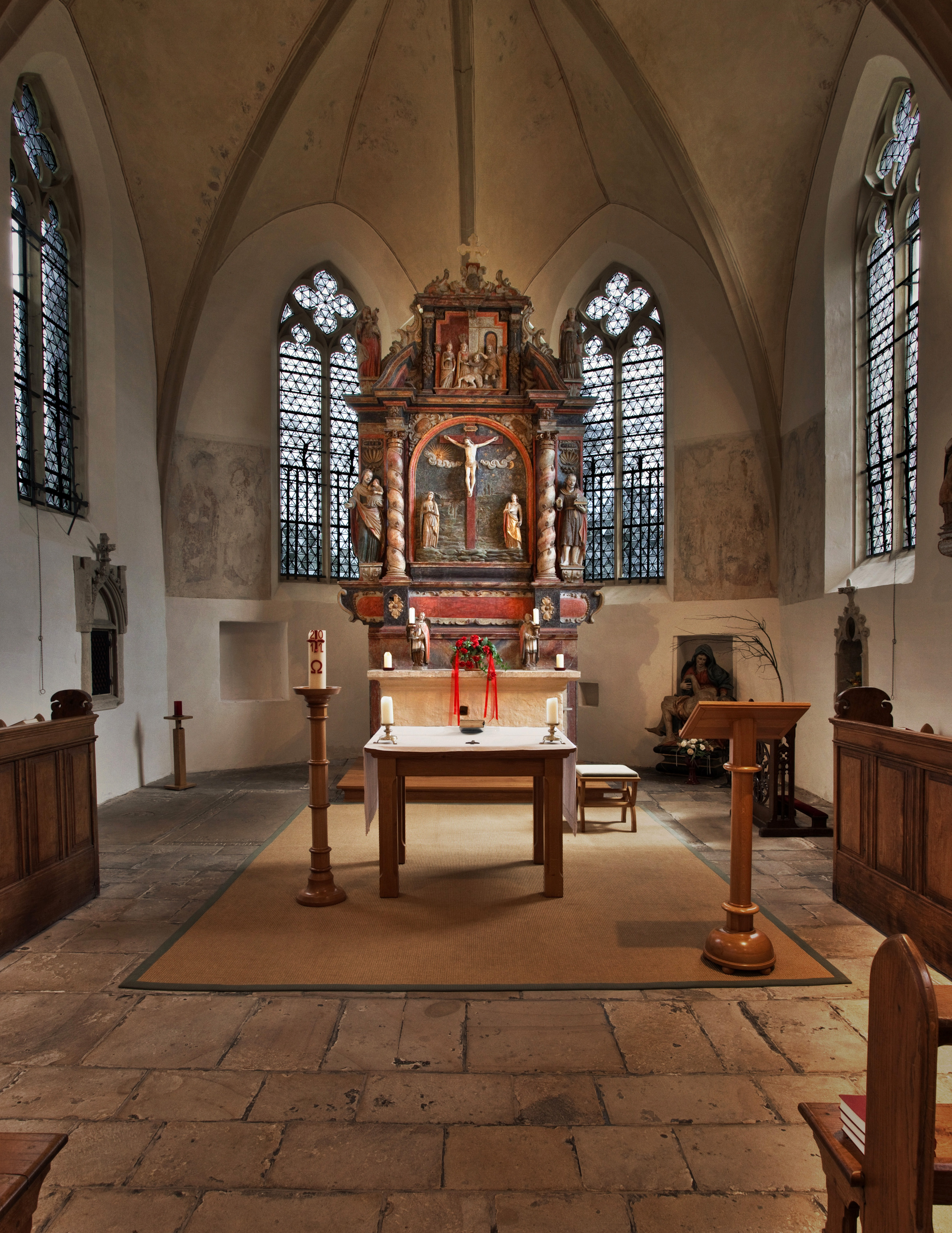 Old church MesumThis is a photograph of an architectural monument., no. 121 a